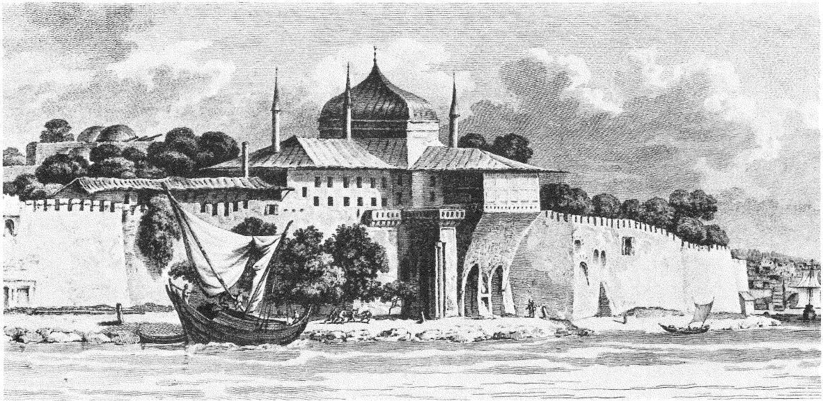 The Pearl Kiosk (İncili Köşk) on the palace wall along the Marmara shore.